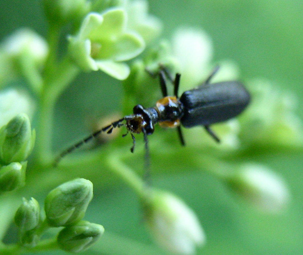 Soldier beetle, Podabrus frater. Peace Valley Nature Center, Bucks County, Pennsylvania, USA.